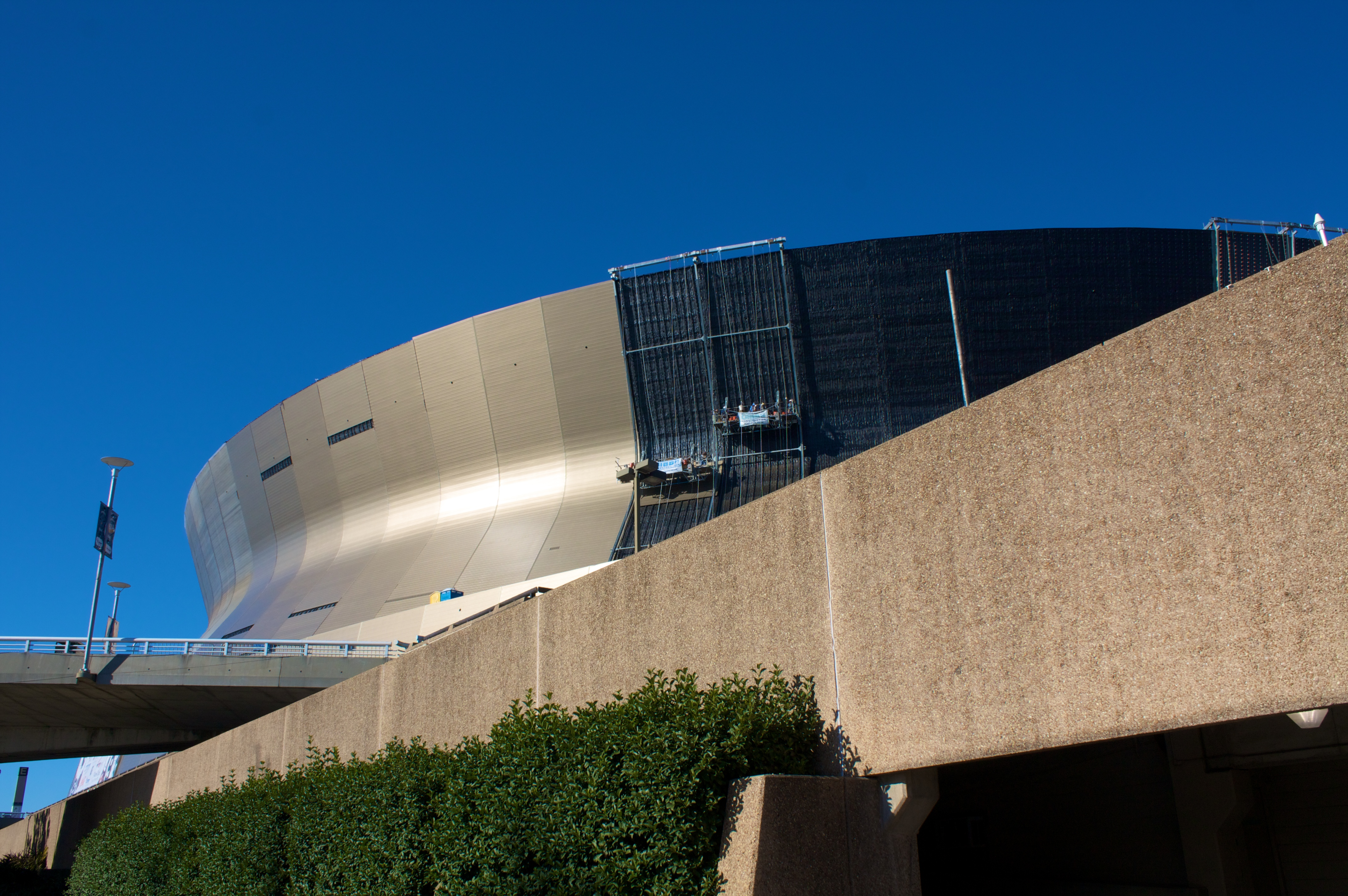 The Louisiana Superdome getting it's siding replaced in January 2010.